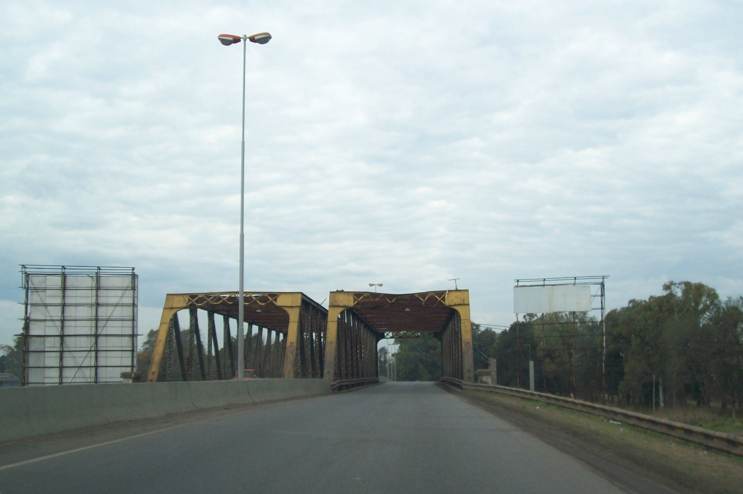 Bosques Bridge over the Ferrocarril General Roca railroad in Bosques, Buenos Aires, Argentina.